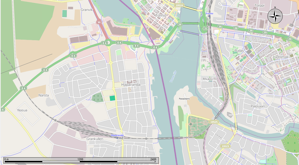 Map showing the railway marshalling yards in Haparanda (left), Tornio (right), with the rail bridge near the bottom of the image. OpenStreet Map overlay from the Marble program.